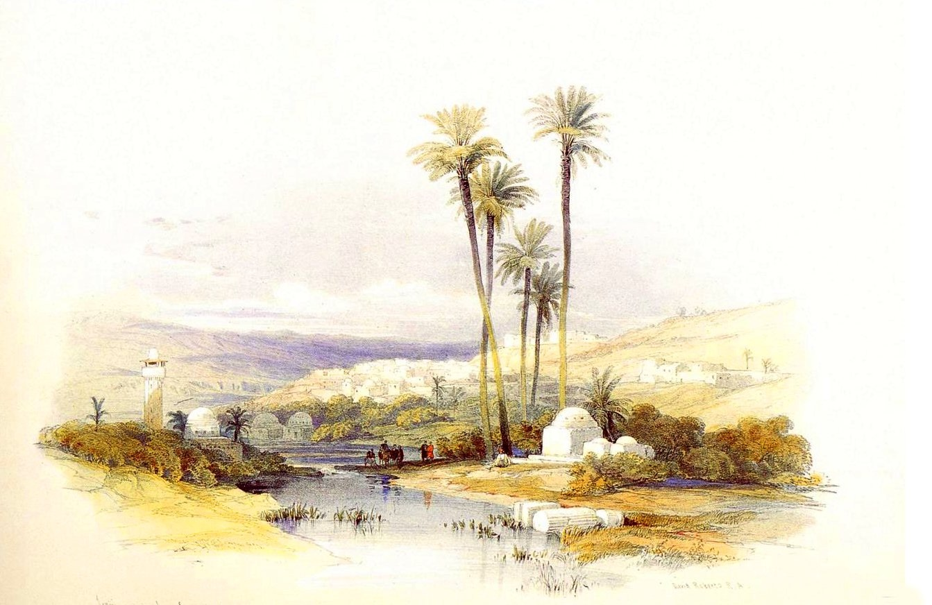 Jenin by David Roberts